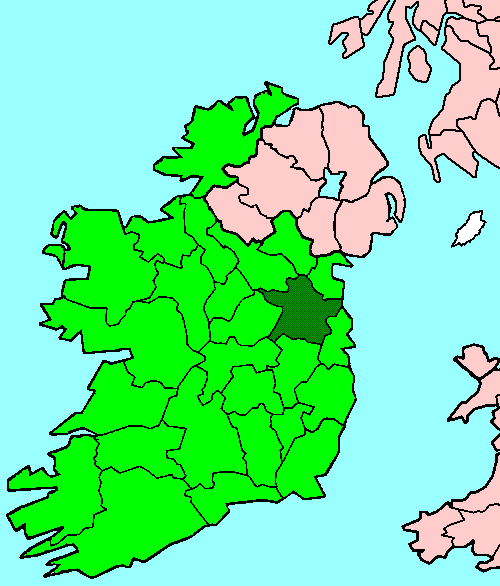 Meath